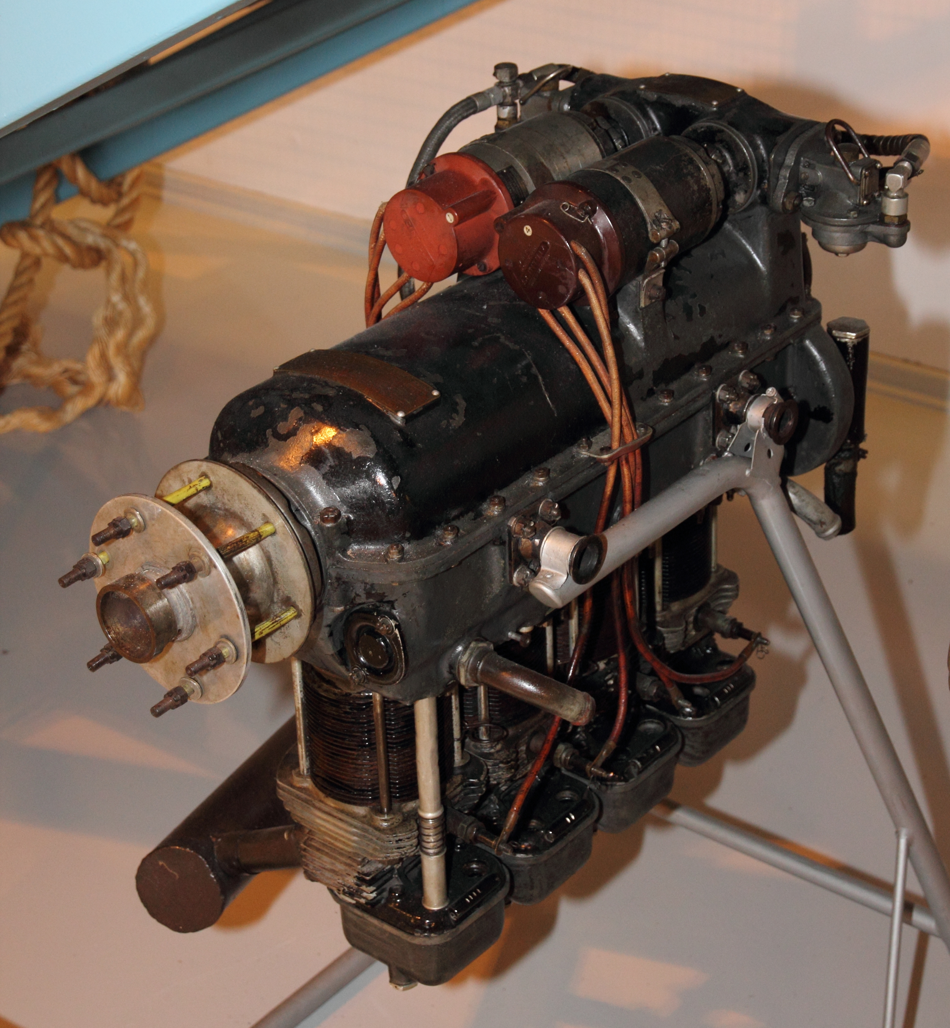 Walter Mikron II engine from Tipsy Trainer OH-SVA (ex-G-AFJT) in the Aviation Museum of Central Finland.